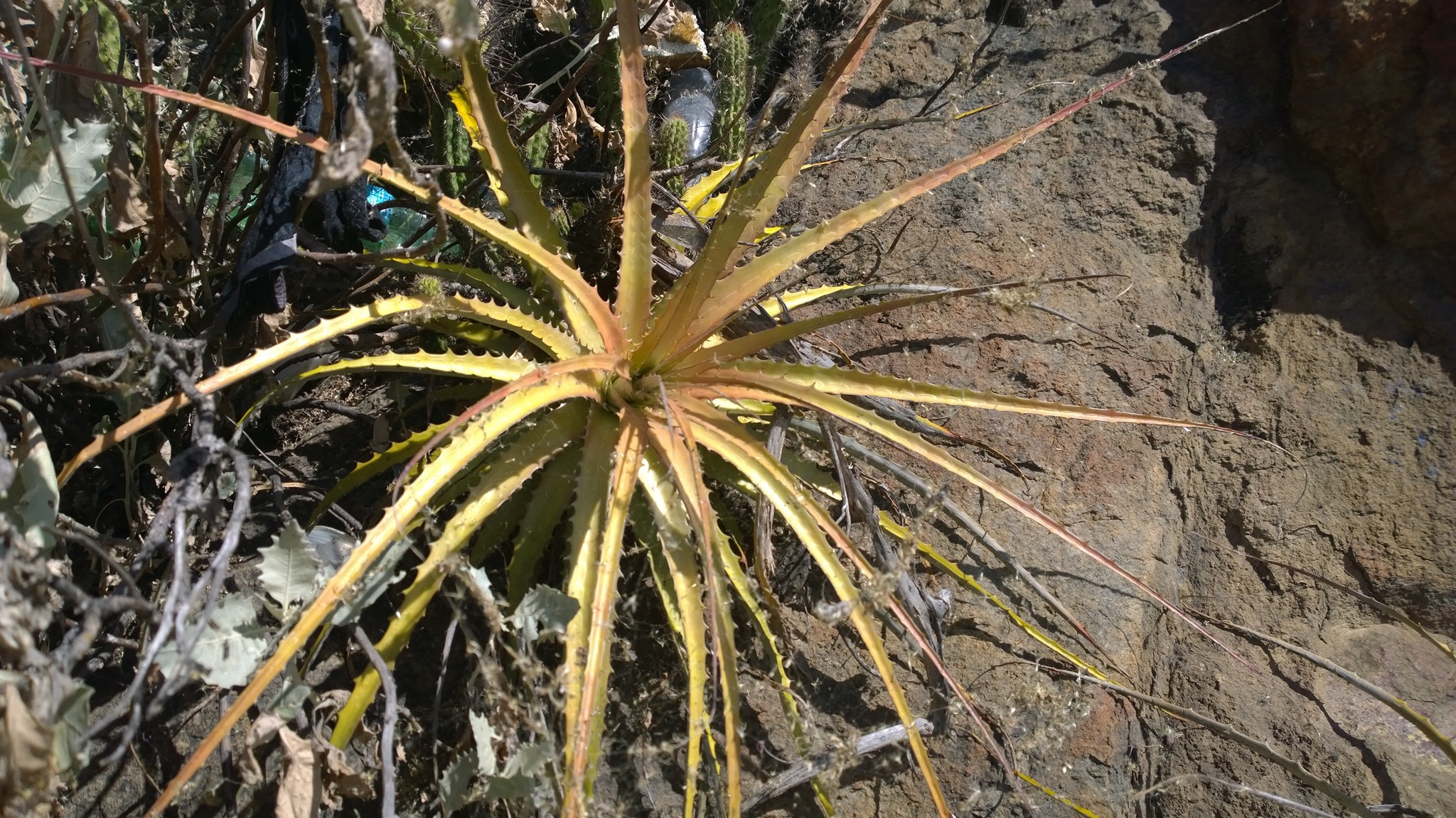 Encholirium spectabile at type locality, Ilha de fogo, Bahia / Pernambuco, Brasil